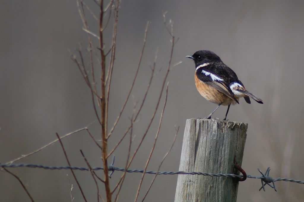 European Stonechat in Portugal.